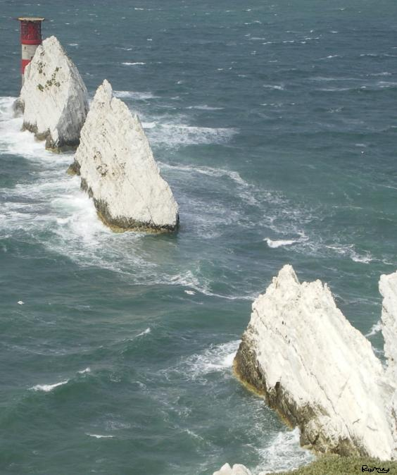 Taken By Remy Osman (Wikipedia Username : Remdabest) from the Old Battery on 1st Aug 2008